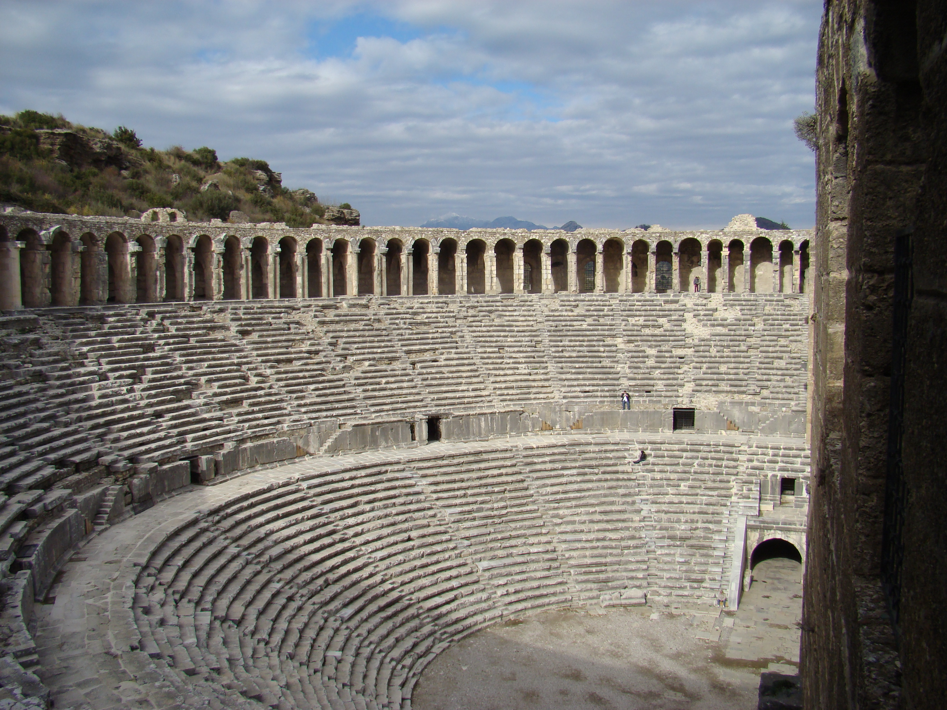 Aspendos, Theater